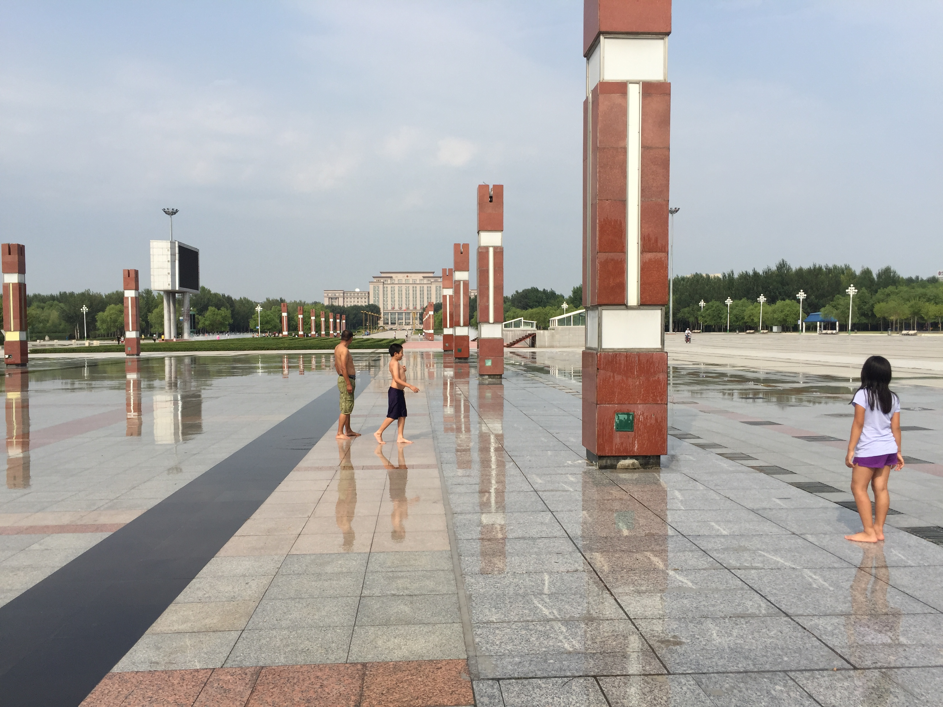 The front of the CPC (Communist Party of China) building in Daqing, China. There are water fountains in this area where local children come to play.